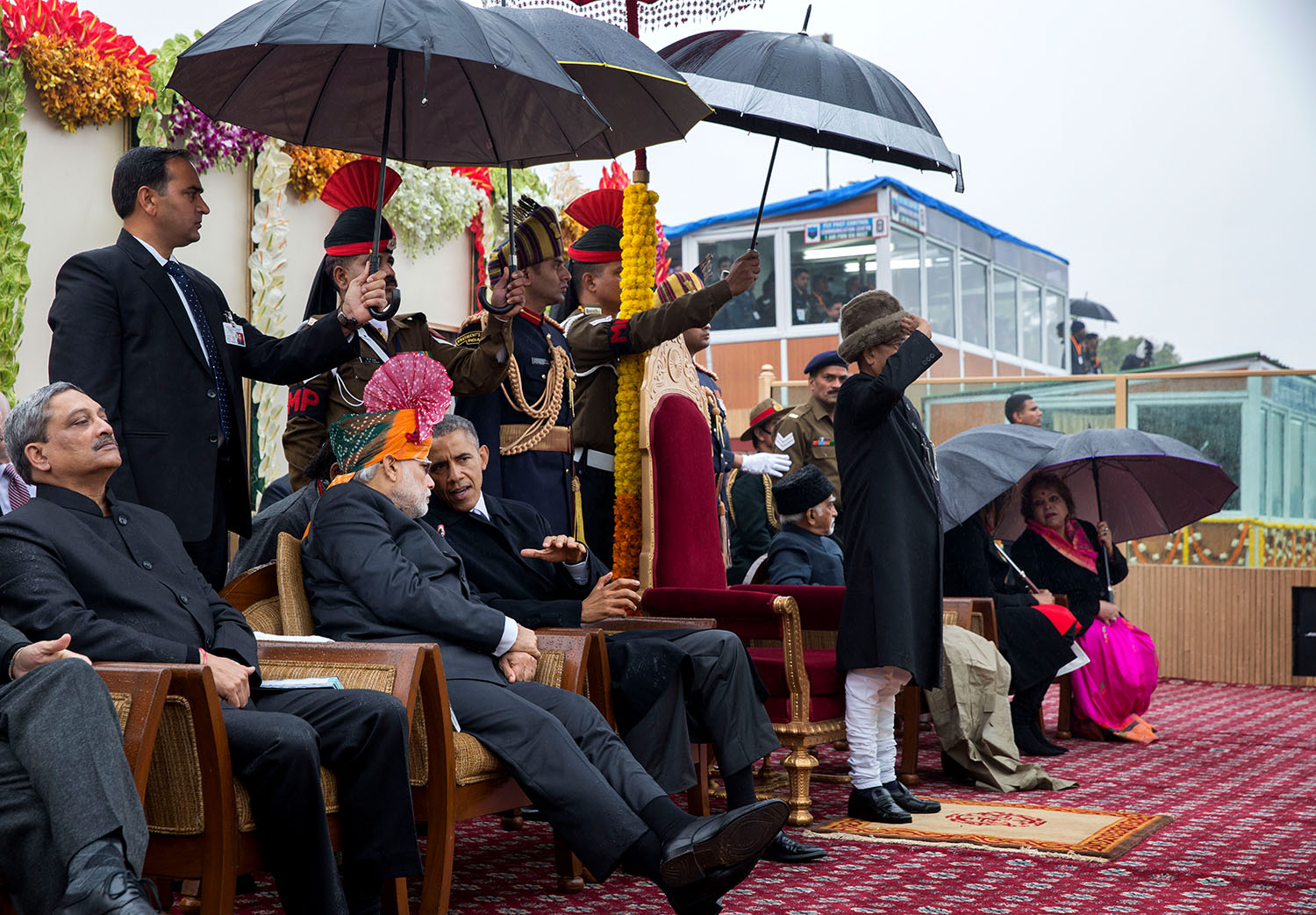 President Barack Obama speaks with Prime Minister Narendra Modi during the Republic Day Parade in New Delhi, India, Jan. 26, 2015. (Official White House Photo by Pete Souza)